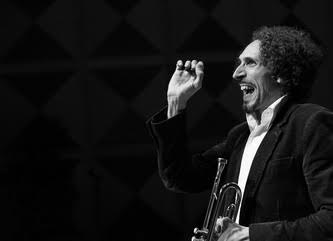 John Daversa putting his fiery conducting hand to work!